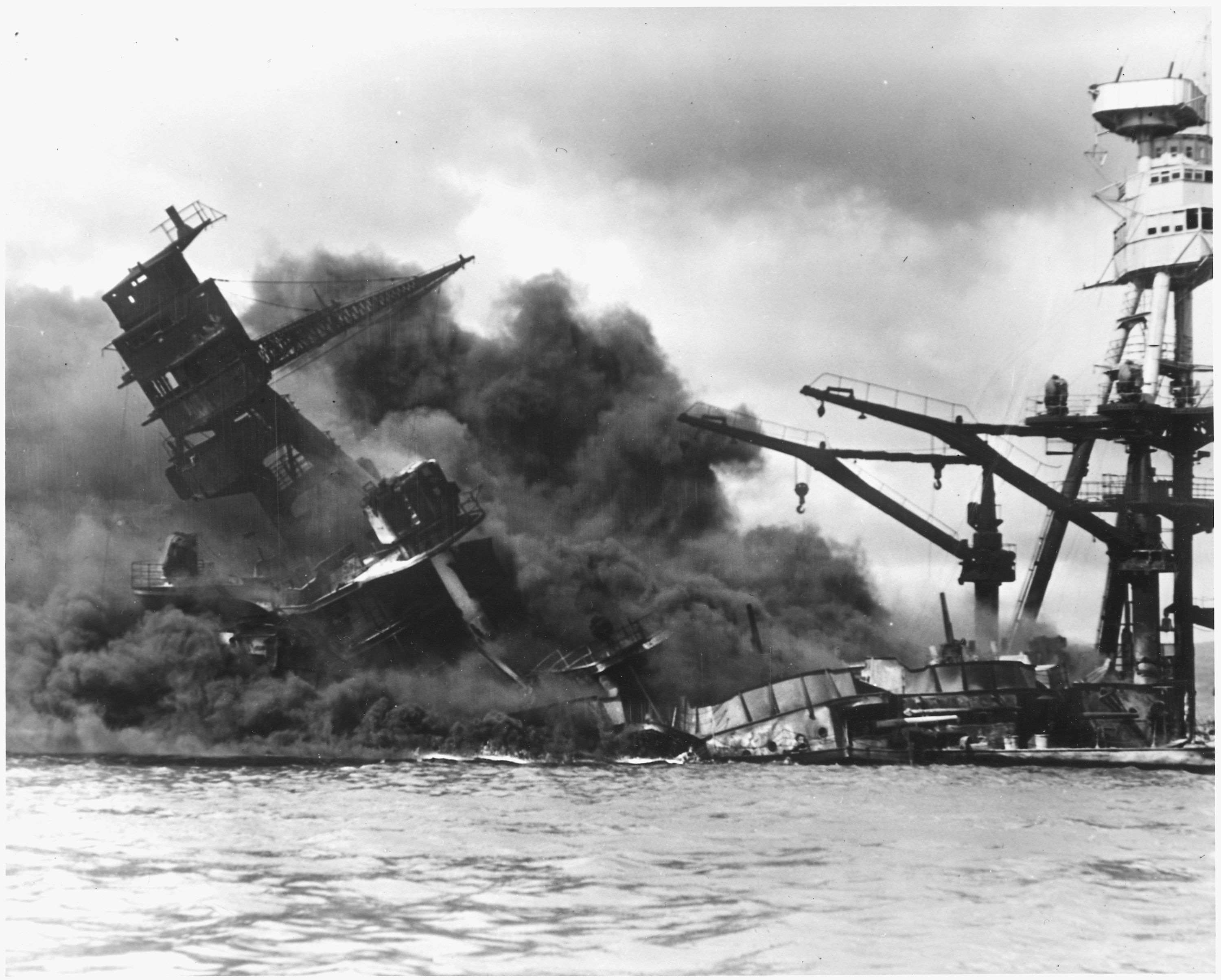 The battleship USS ARIZONA sinking after being hit by Japanese air attack on Dec. 7,1941.